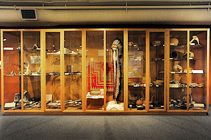 IMNH exhibit in located in Pocatello Idaho.